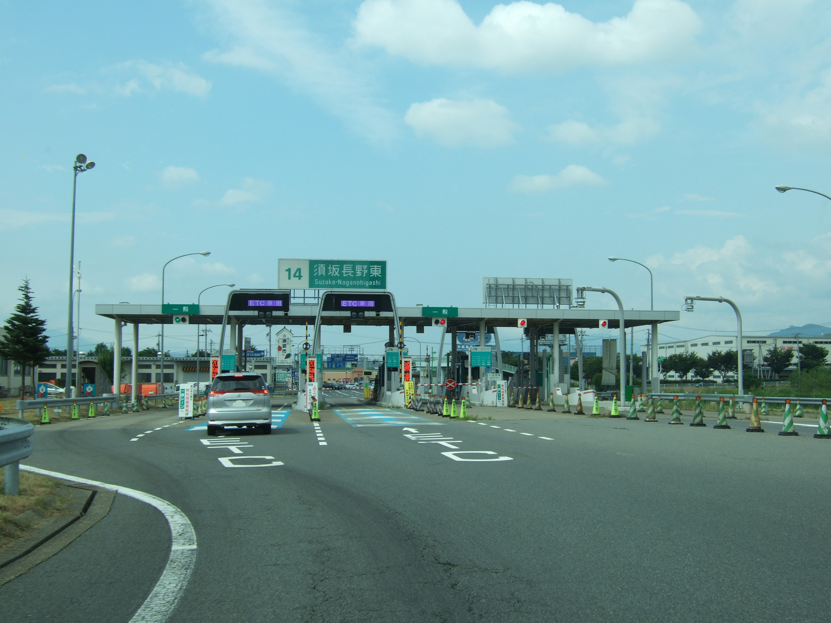 Toll gates at Suzaka-Naganohigashi Interchange